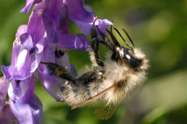 Anthophora quadrimaculata from Commanster, Belgian High Ardennes .